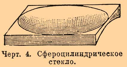 Illustration from Brockhaus and Efron Encyclopedic Dictionary (1890—1907)